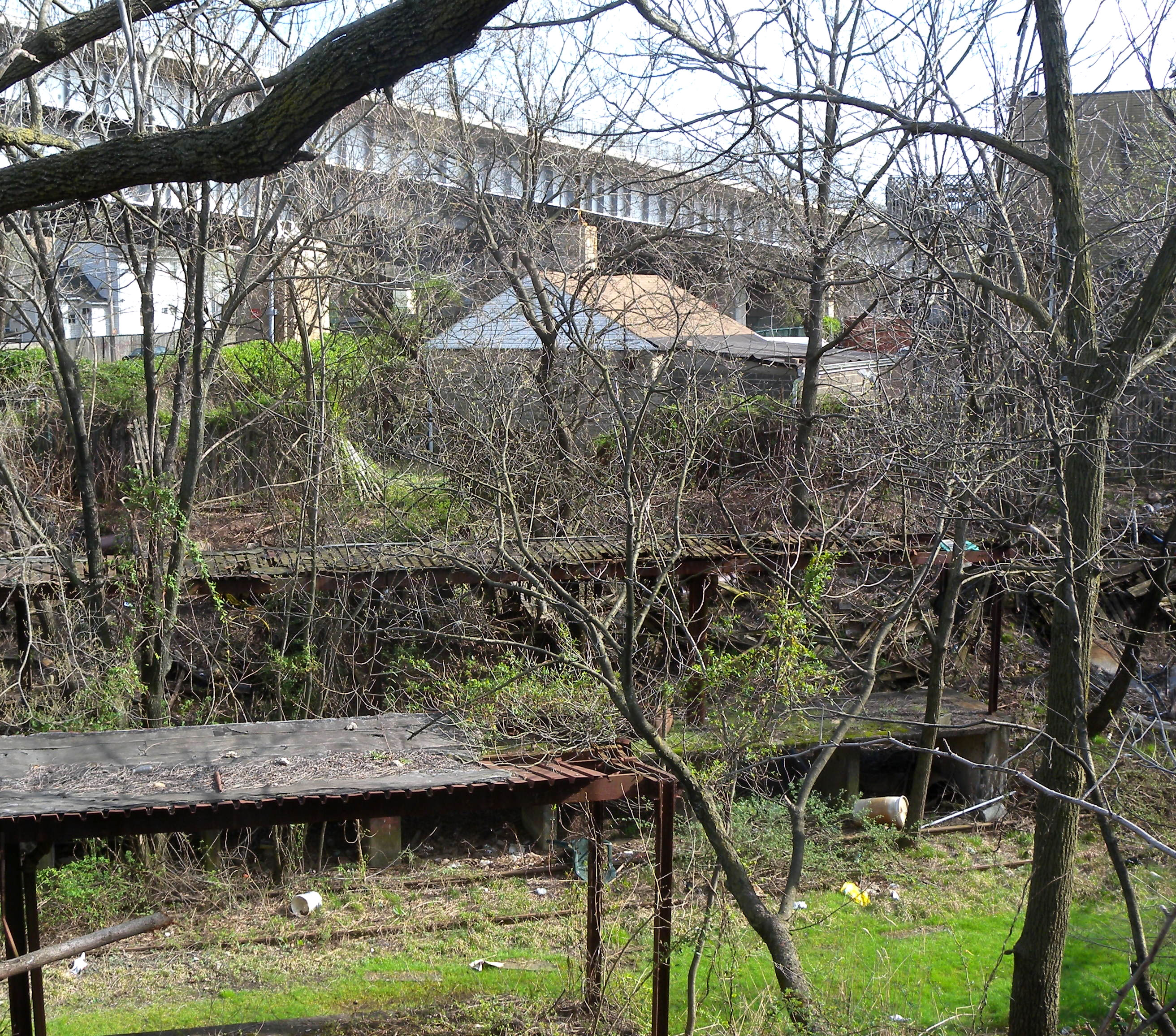 Looking south and down from Newark Avenue at station platforms of Elm Park (Staten Island Railway station) on a sunny early afternoon.